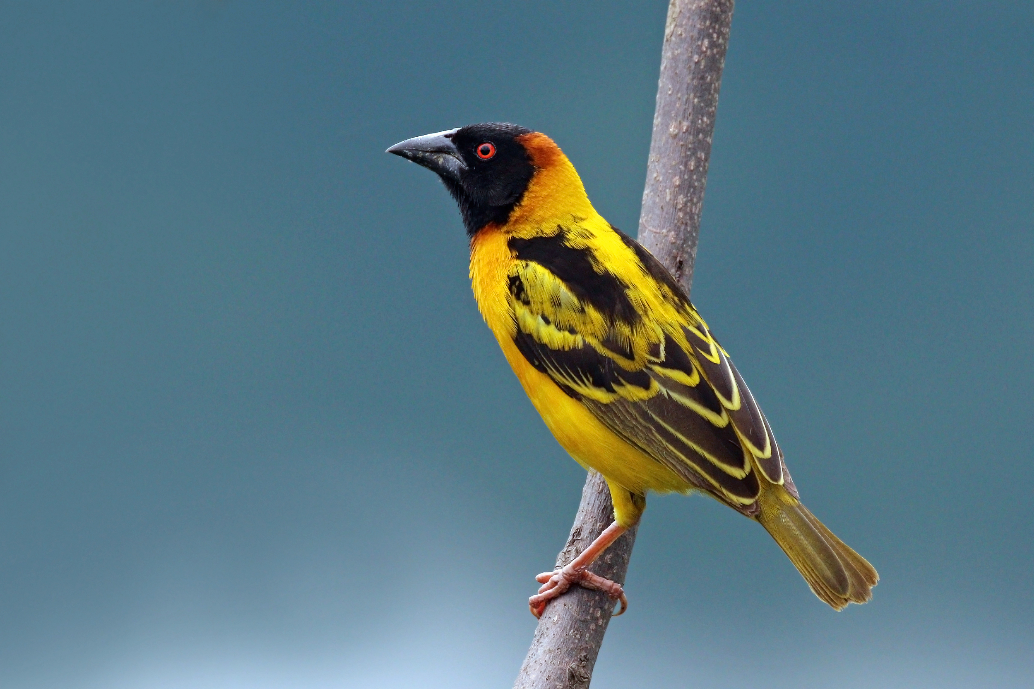 Black-headed weaver (Ploceus cucullatus bohndorffi) male, Kibale Forest, Uganda